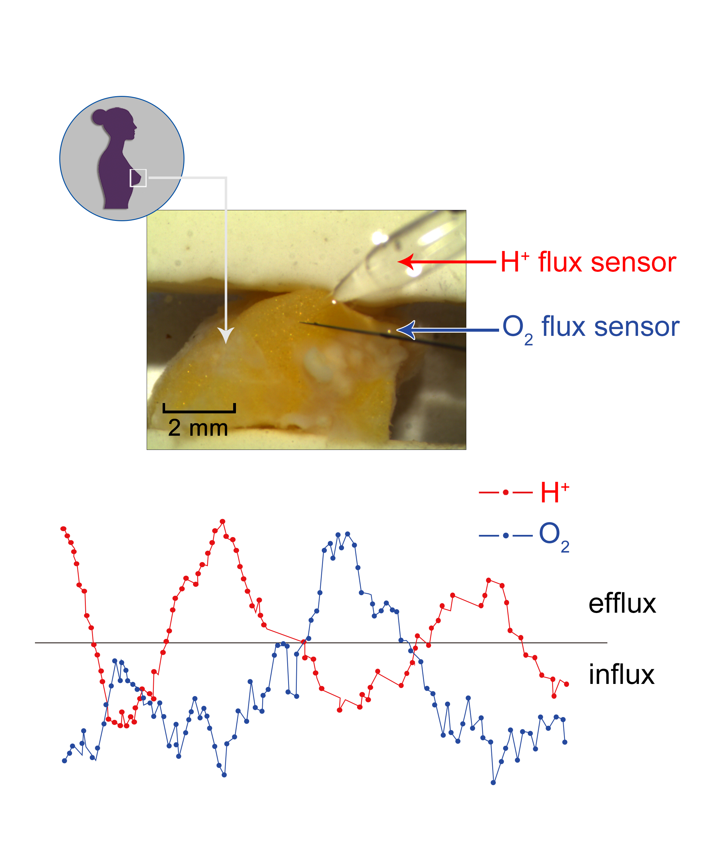 An experiment using non-invasive micro-test technology. A breast tumor sample is measured simultaneously by H+ and O2 flux sensors. The data show how the fluxes change together, which is useful for research in areas like cancer metabolism.